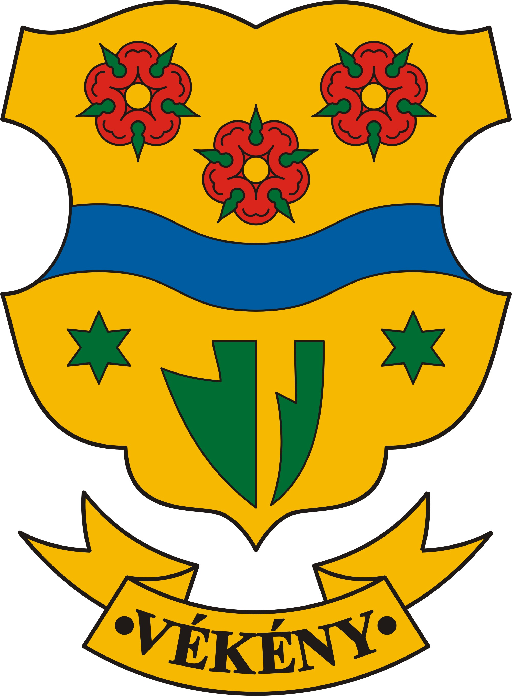 Coat of arms of Vékény, Hungary